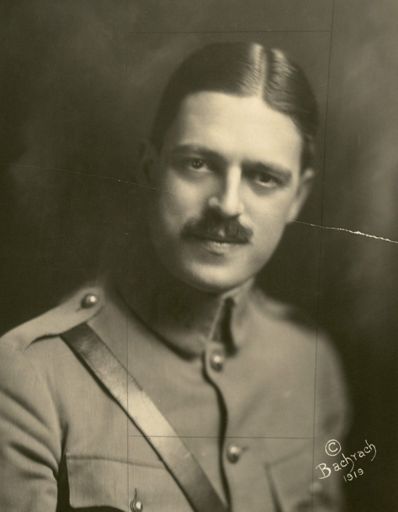 Headshot of a younger Andre Morize in French military regalia.